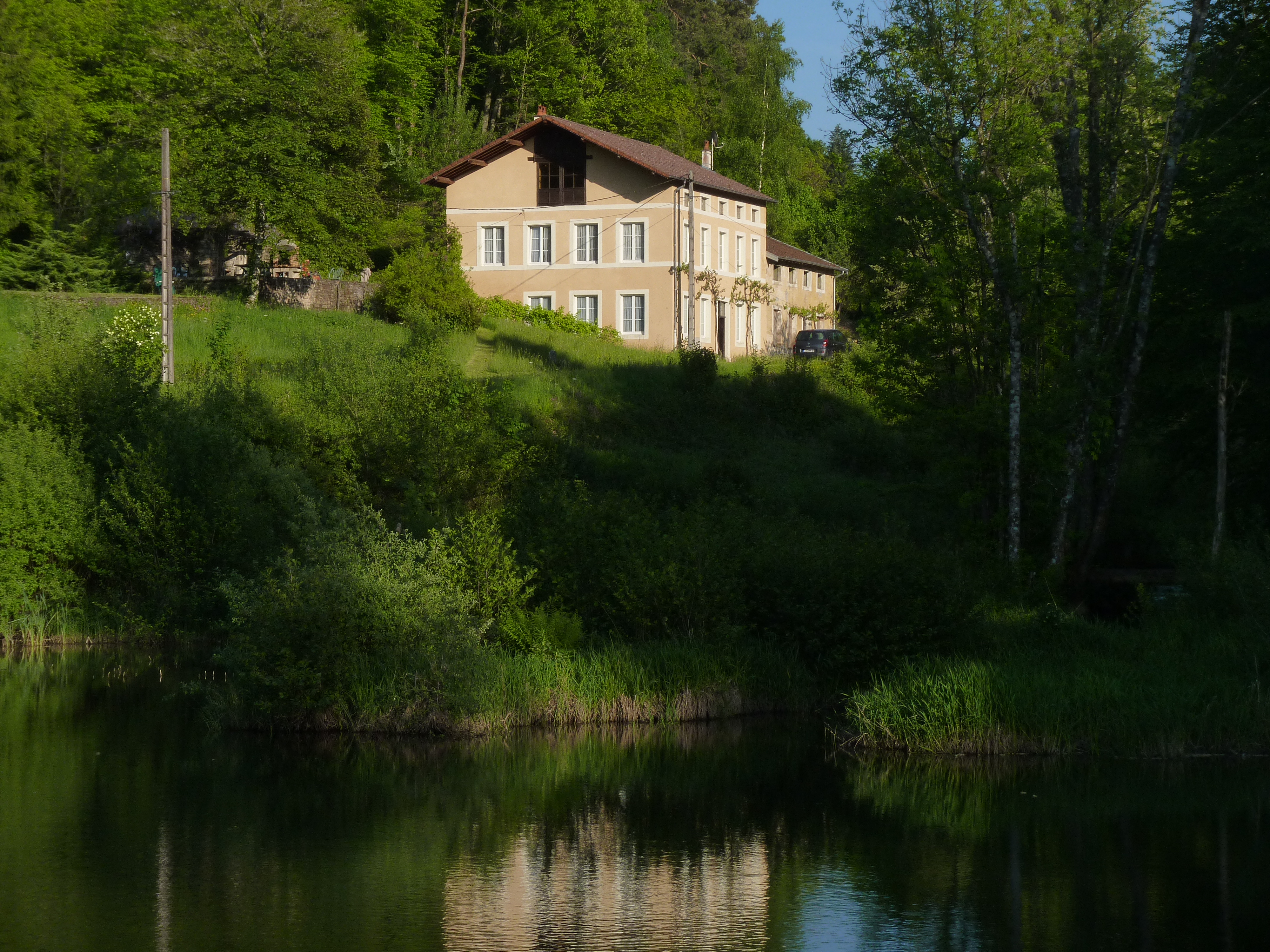 Ex store before tools shipping - Ourches' valley